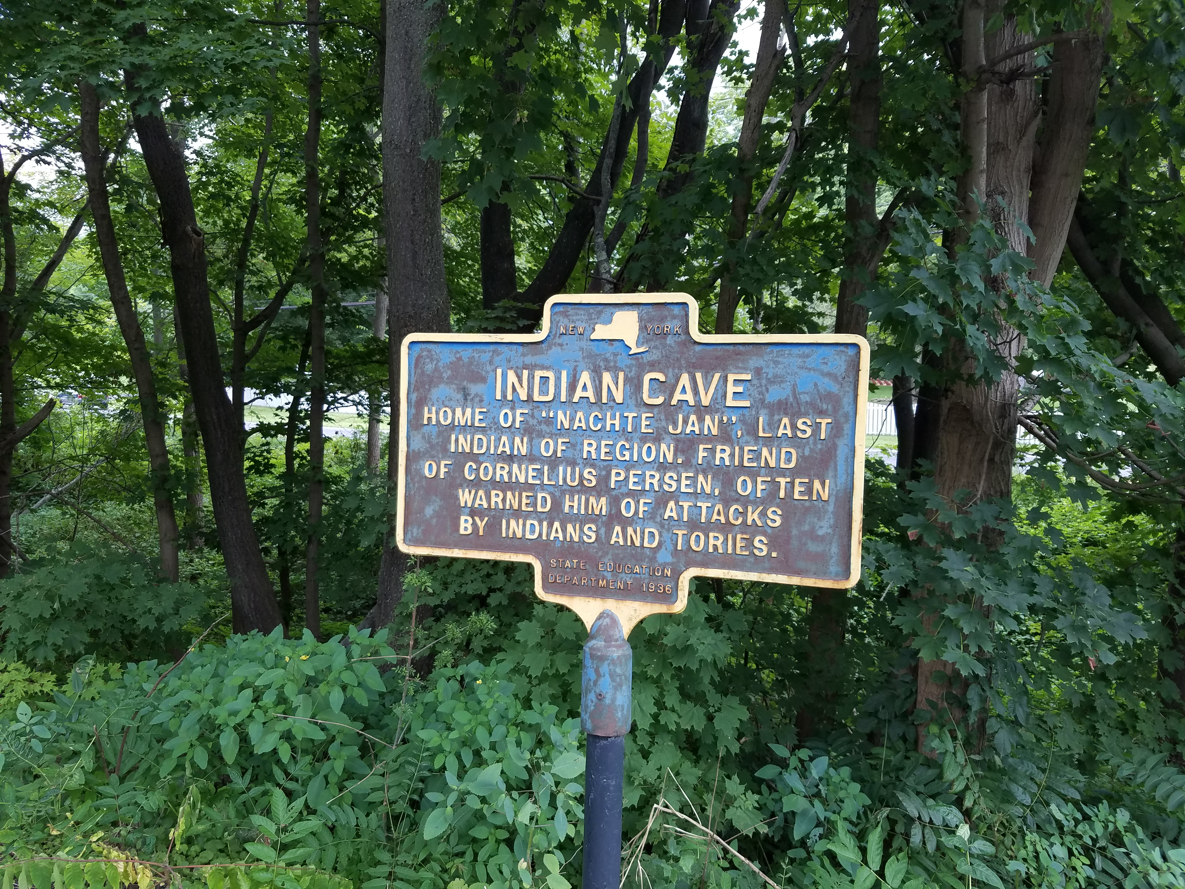 New York State historic marker for an Indian Cave.